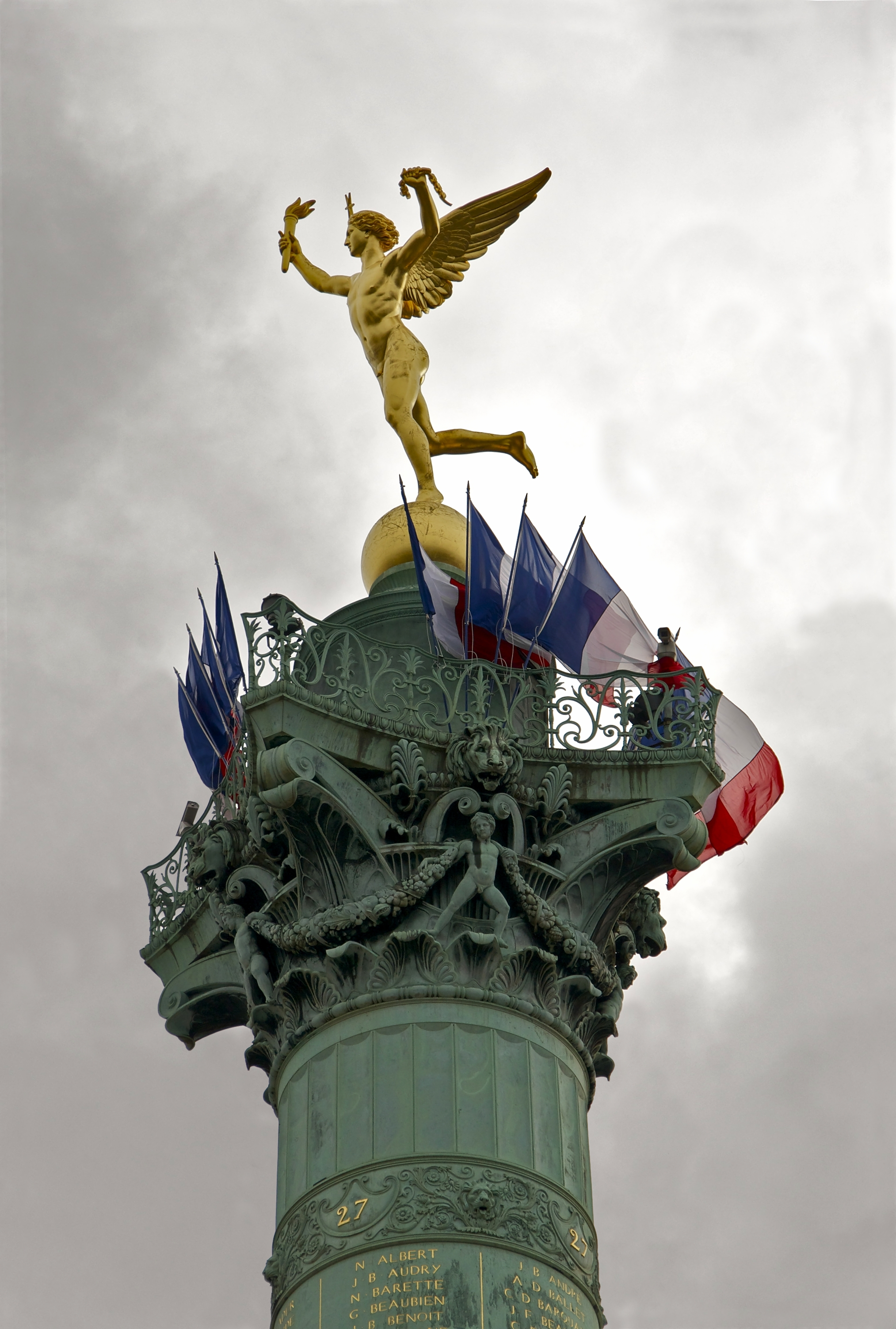 The Genius of Liberty, topping the july column with flags, 14th july 2012, Bastille square, Paris, France.